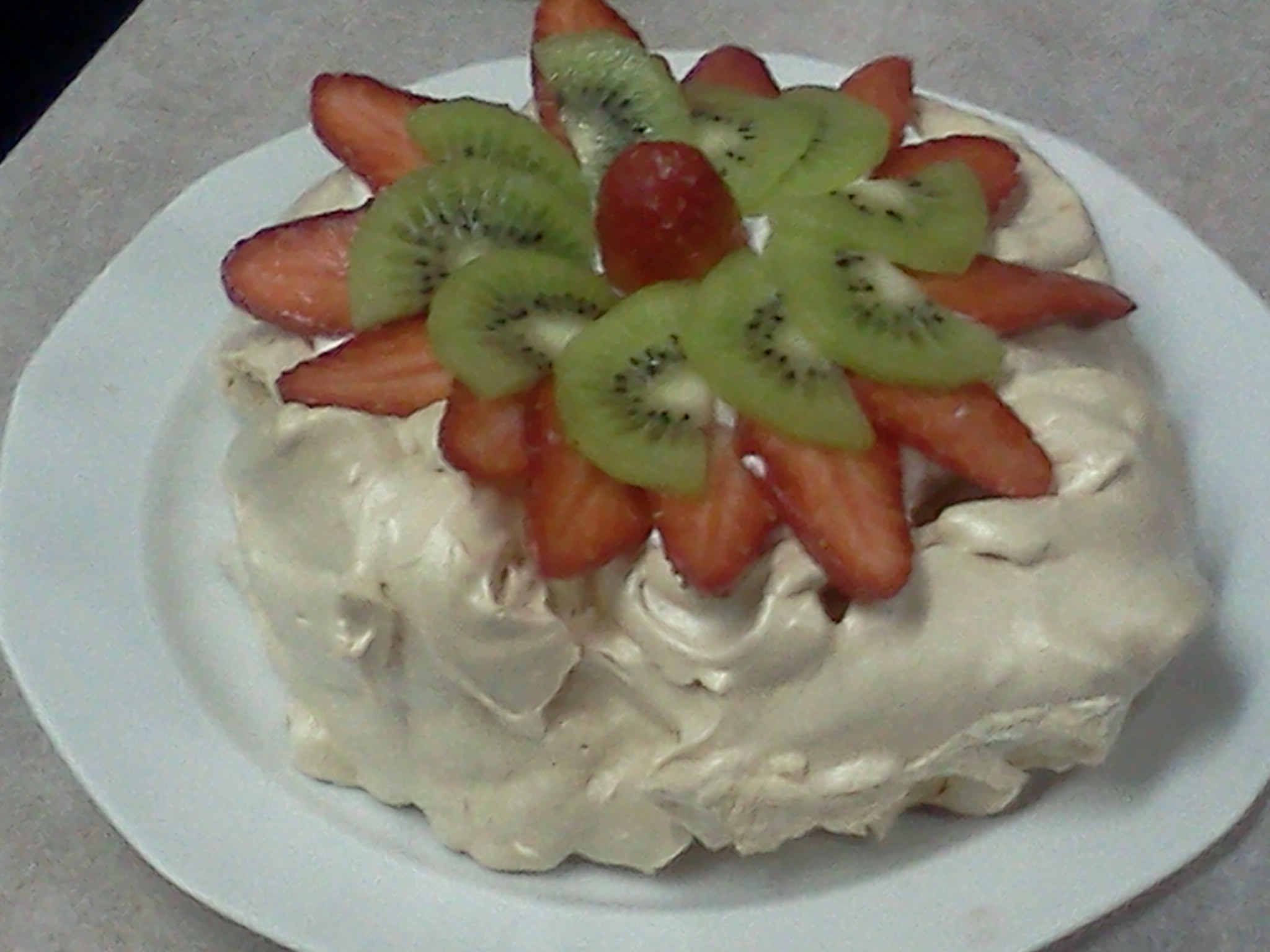 decorated home made pavlova dessert, with kiwifruit and strawberries. Made by Ziv.